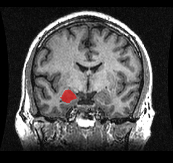 MRI coronal view of the amygdala